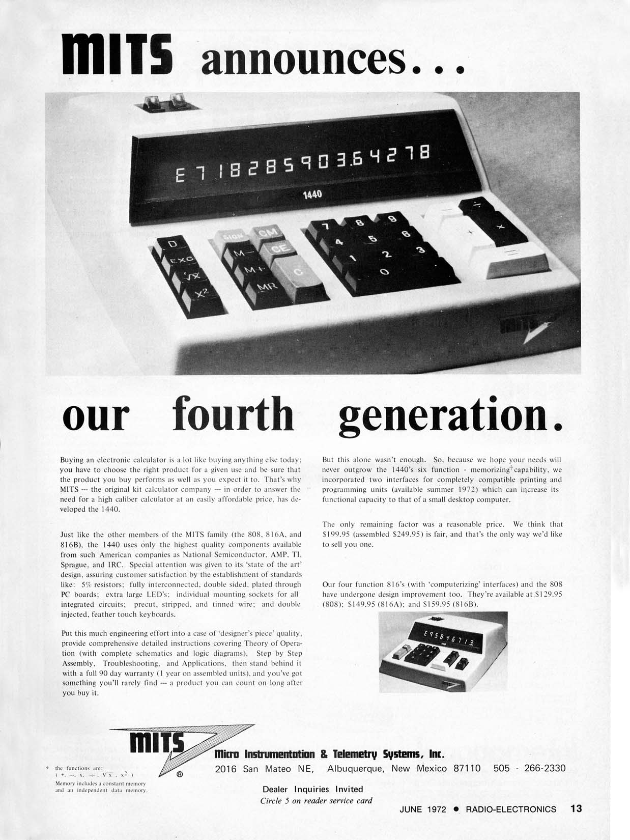 Micro Instrumentation & Telemetry Systems, Inc (MITS) advertisement for an electronic calculator in June 1972. After a brutal calculator price war in 1973–1974, MITS was $300,000 dollars in debt. The company introduced the Altair 8800 in January 1975, the first successful personal computer. MITS was acquired by Pertec Computer Corporation in 1977 for $6 million.